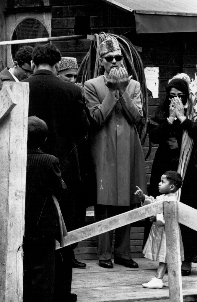 Amatul Hafeez Begum (right) at the groundbreaking ceremony in the presence of Mushtaq Ahmad Bajwa (middle), then a missionary in Switzerland